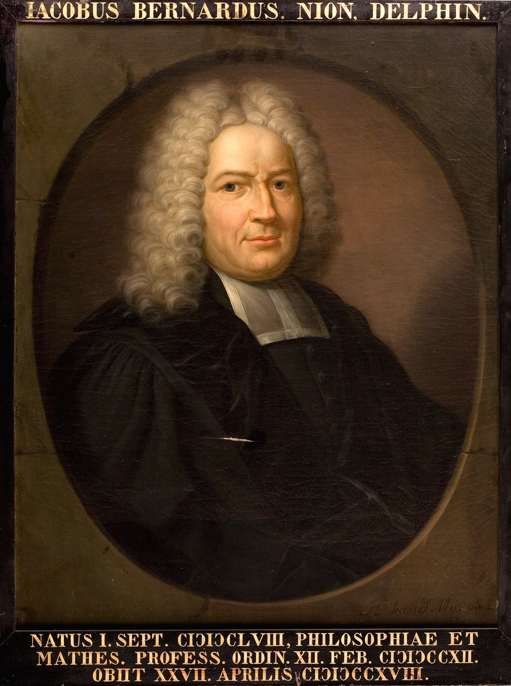 Portrait of Leiden professor Jacques Bernard (1658-1718) by painter Hieronymus van der Mij (1687-1761). Icones Leidenses 199